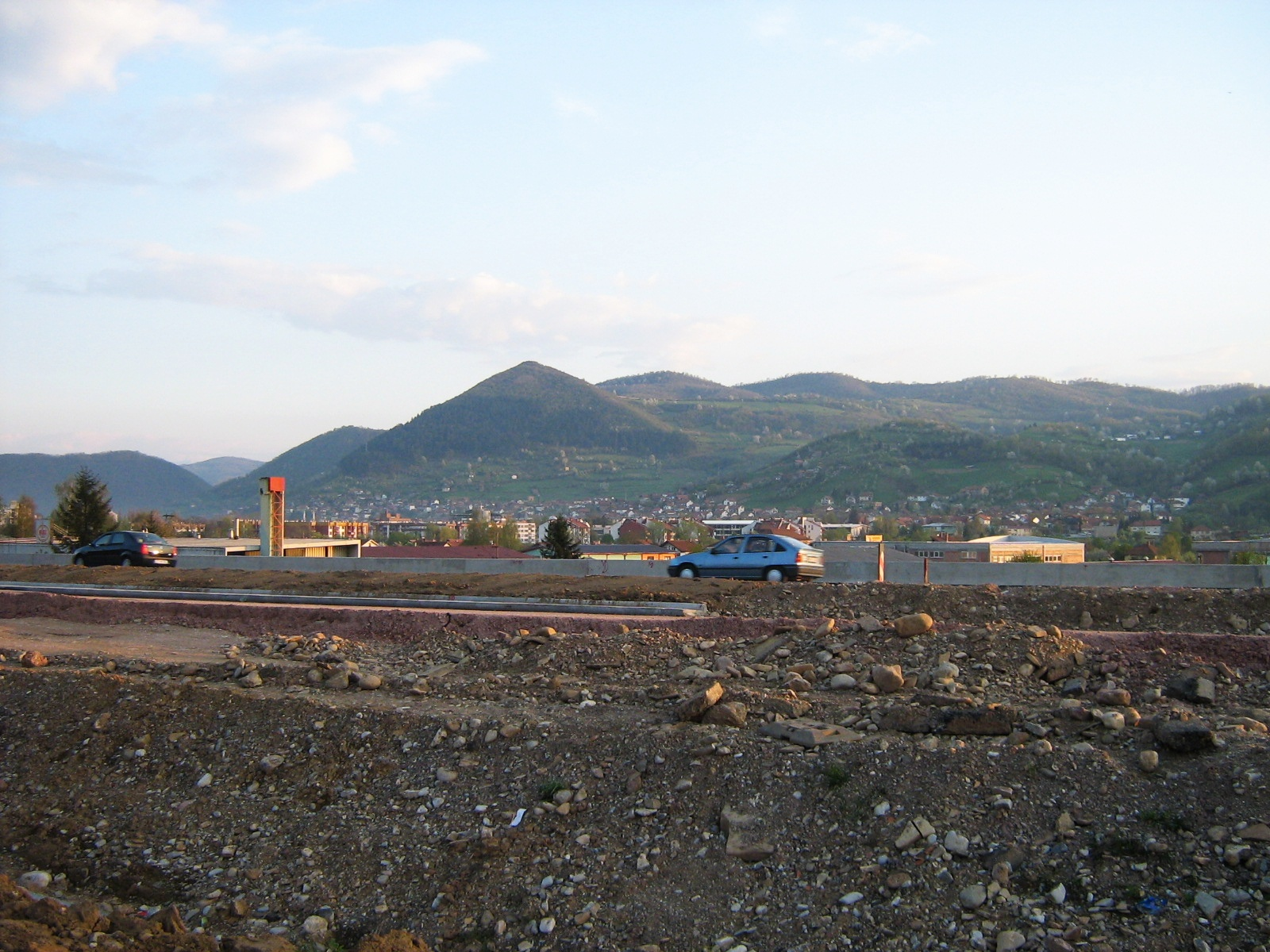 View from nearby Taukčići towards Visočica hill, in foreground is 5C higway